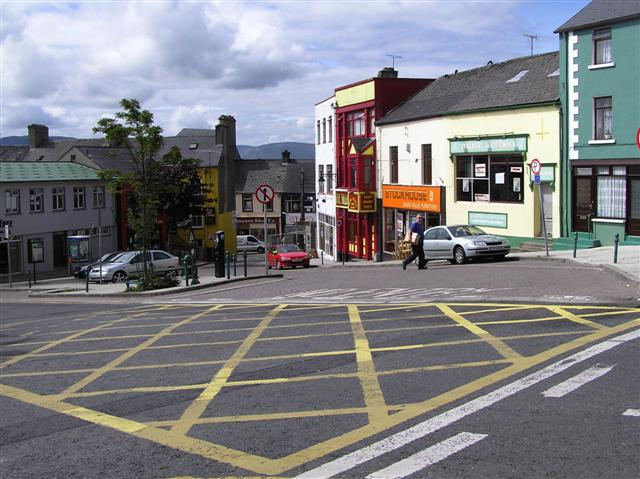 Ballyshannon, County Donegal A steep street one-way street near the centre of town.